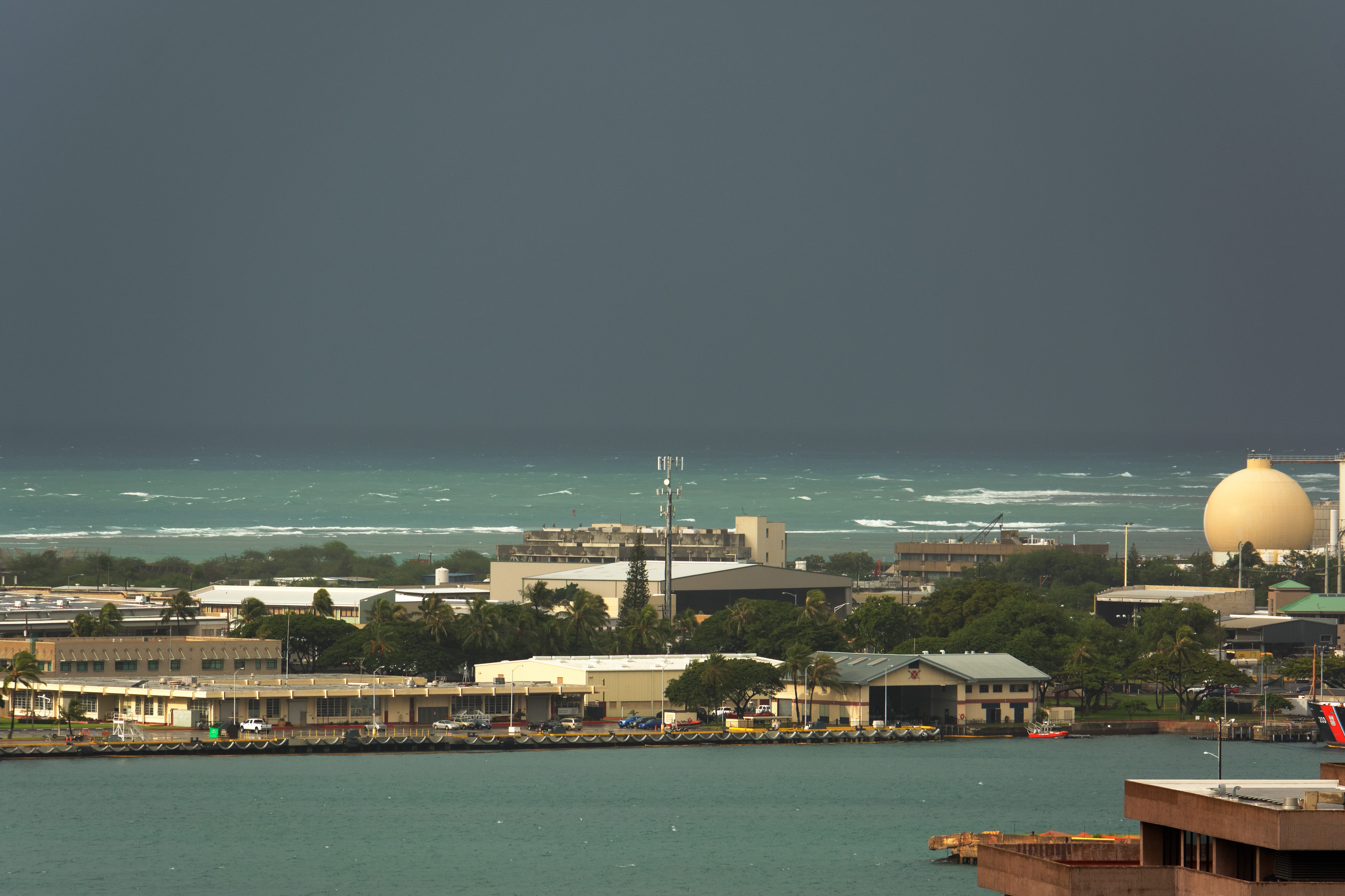 Storm approaching Honolulu